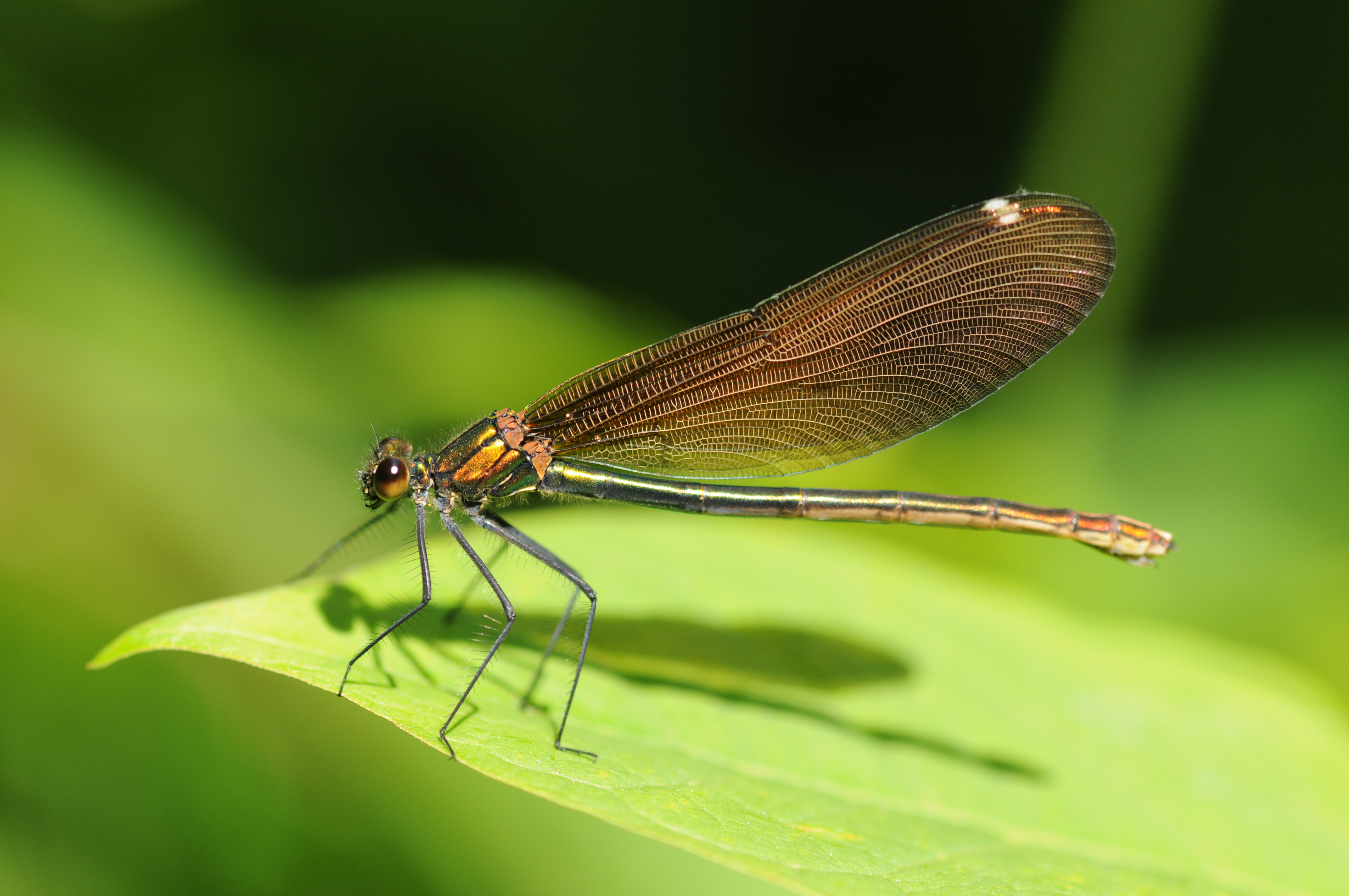 A Beautiful Demoiselle (Calopteryx virgo)